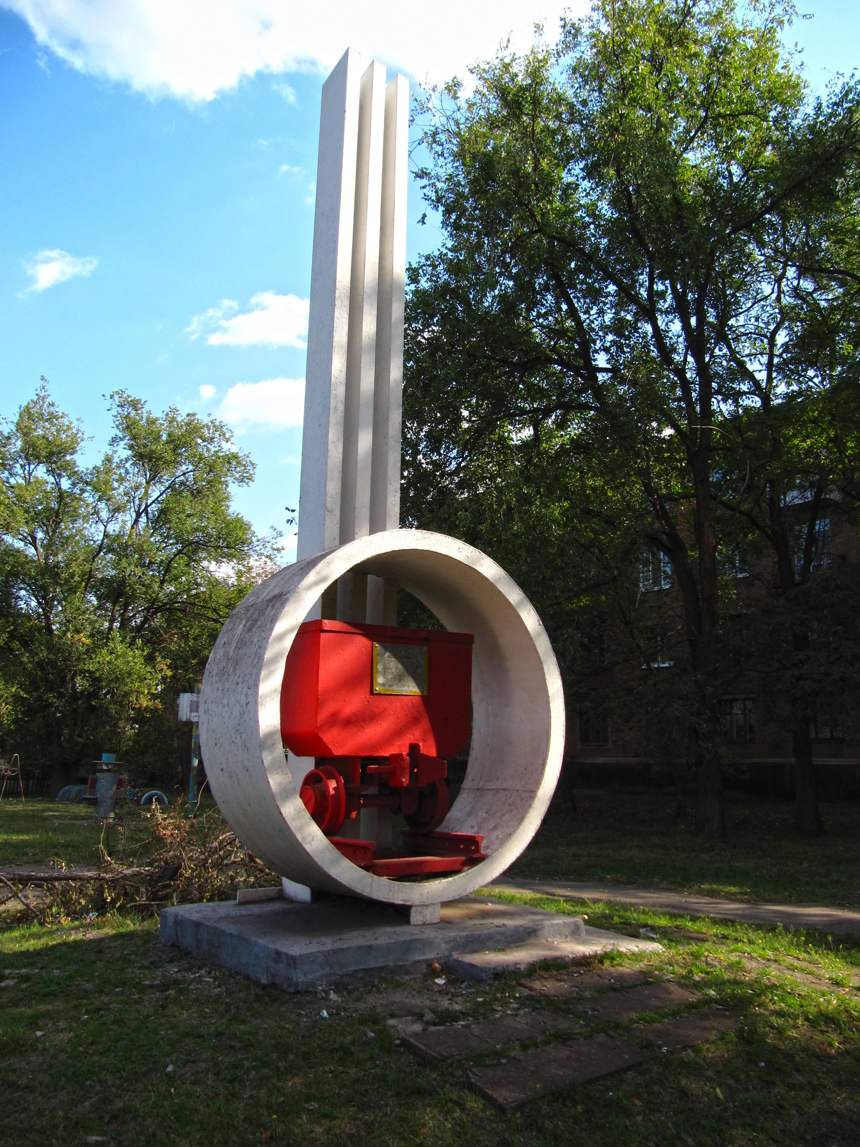 The memorial sign in honor of mining 150 million tons of ore, Kryvyi Rih, Ukraine